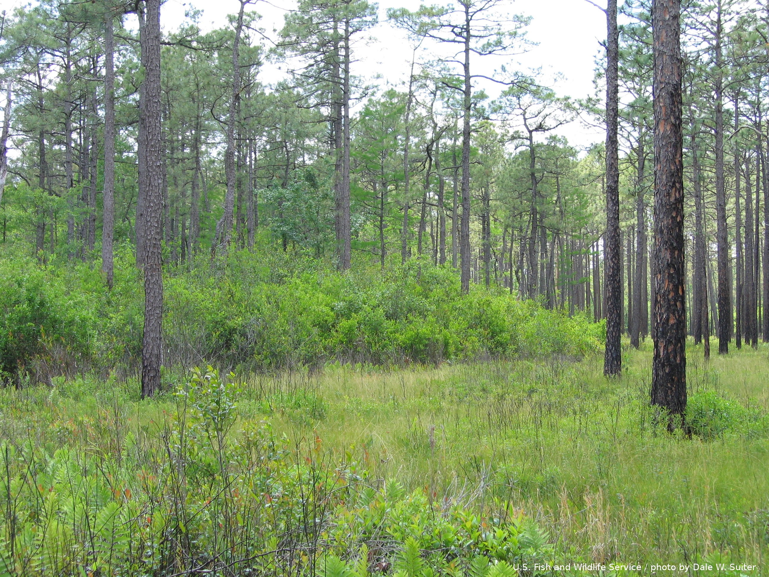 Rough-leaf loosestrife savannah pocosin ecotone